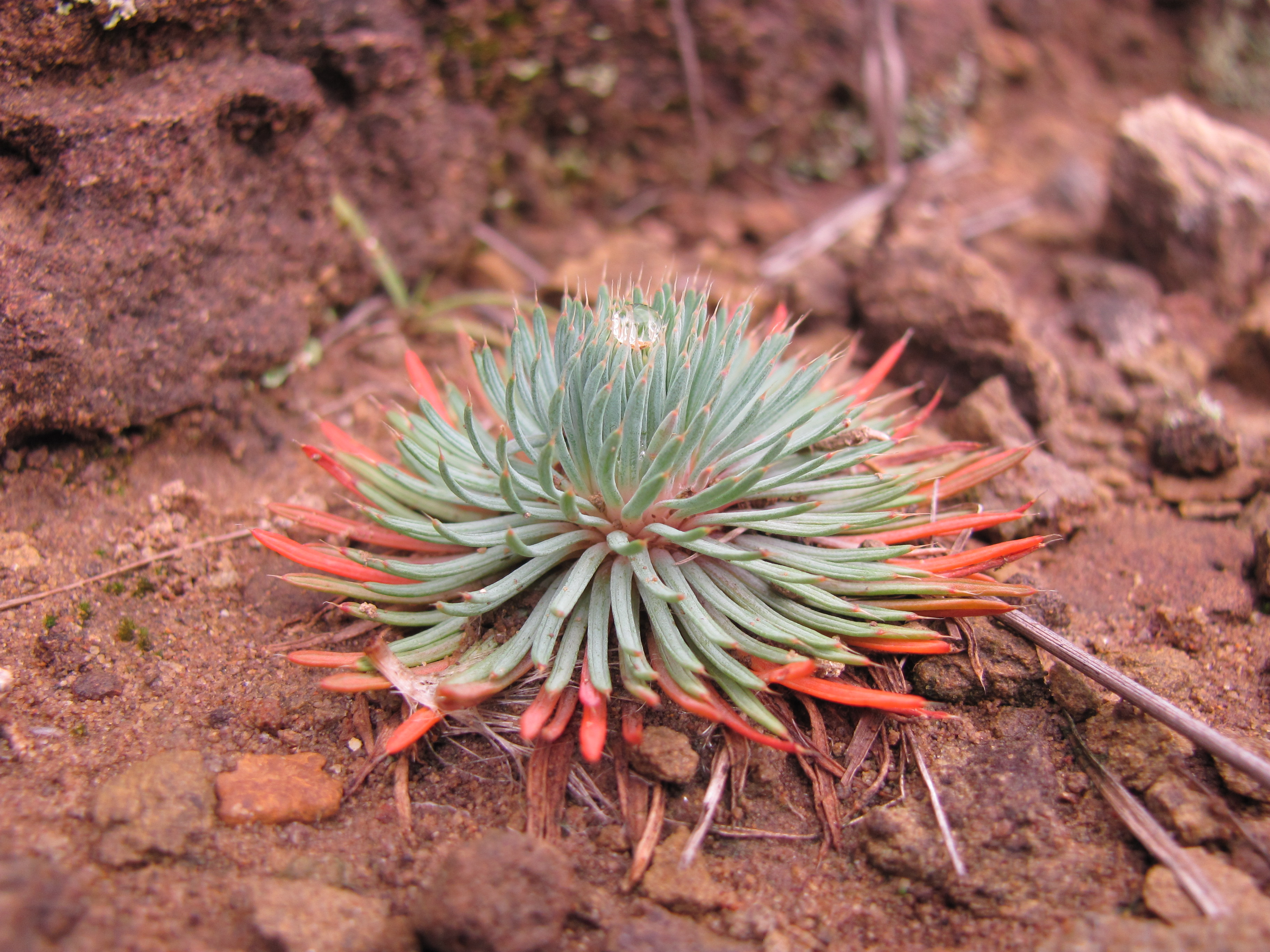 Psammotropha myriantha Sond. - foothills of the Drakensberg 20kms out of Underberg, KwaZulu-Natal, South Africa